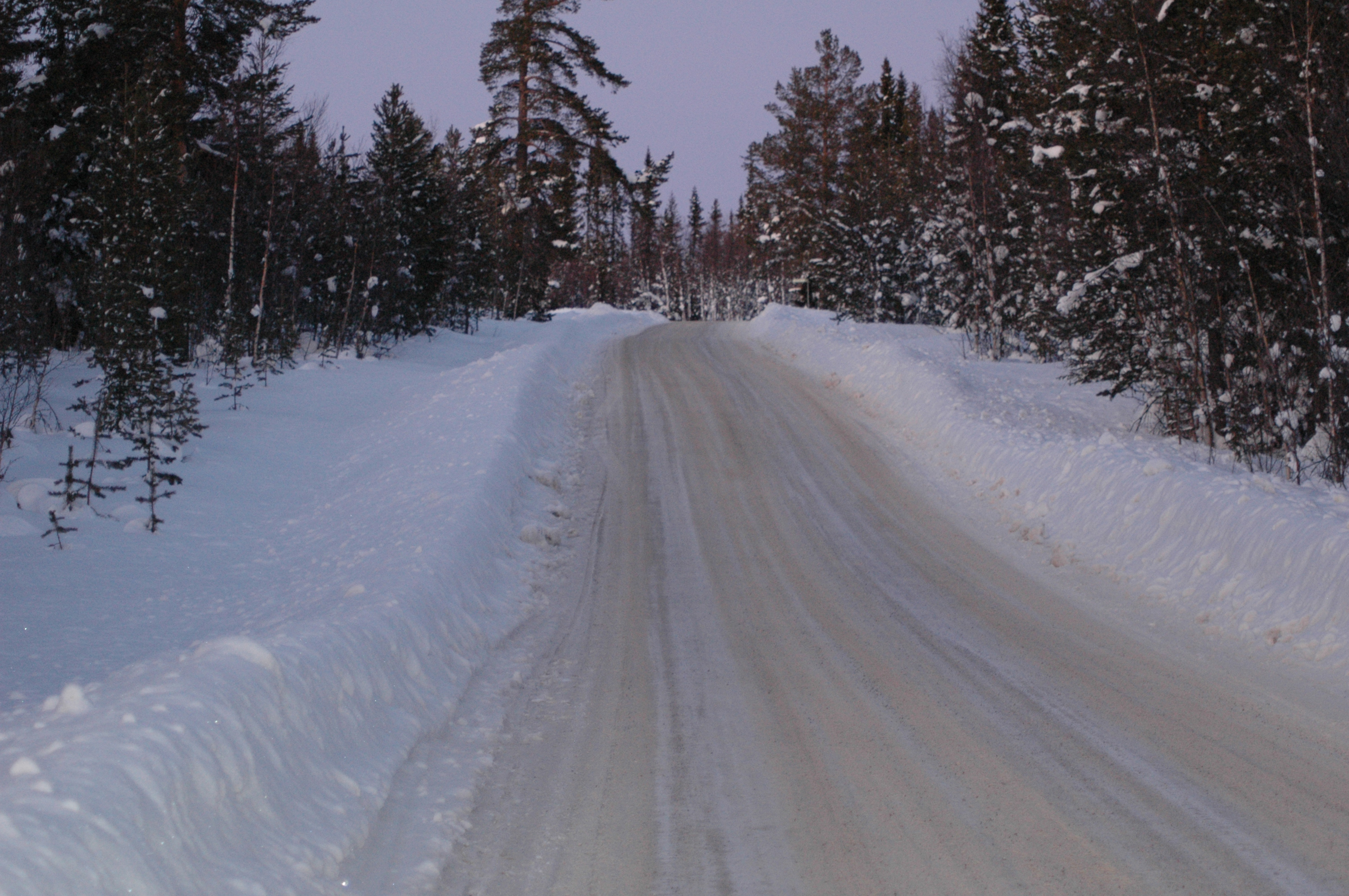 A street in the Swedish skiing resort of Lofsdalen